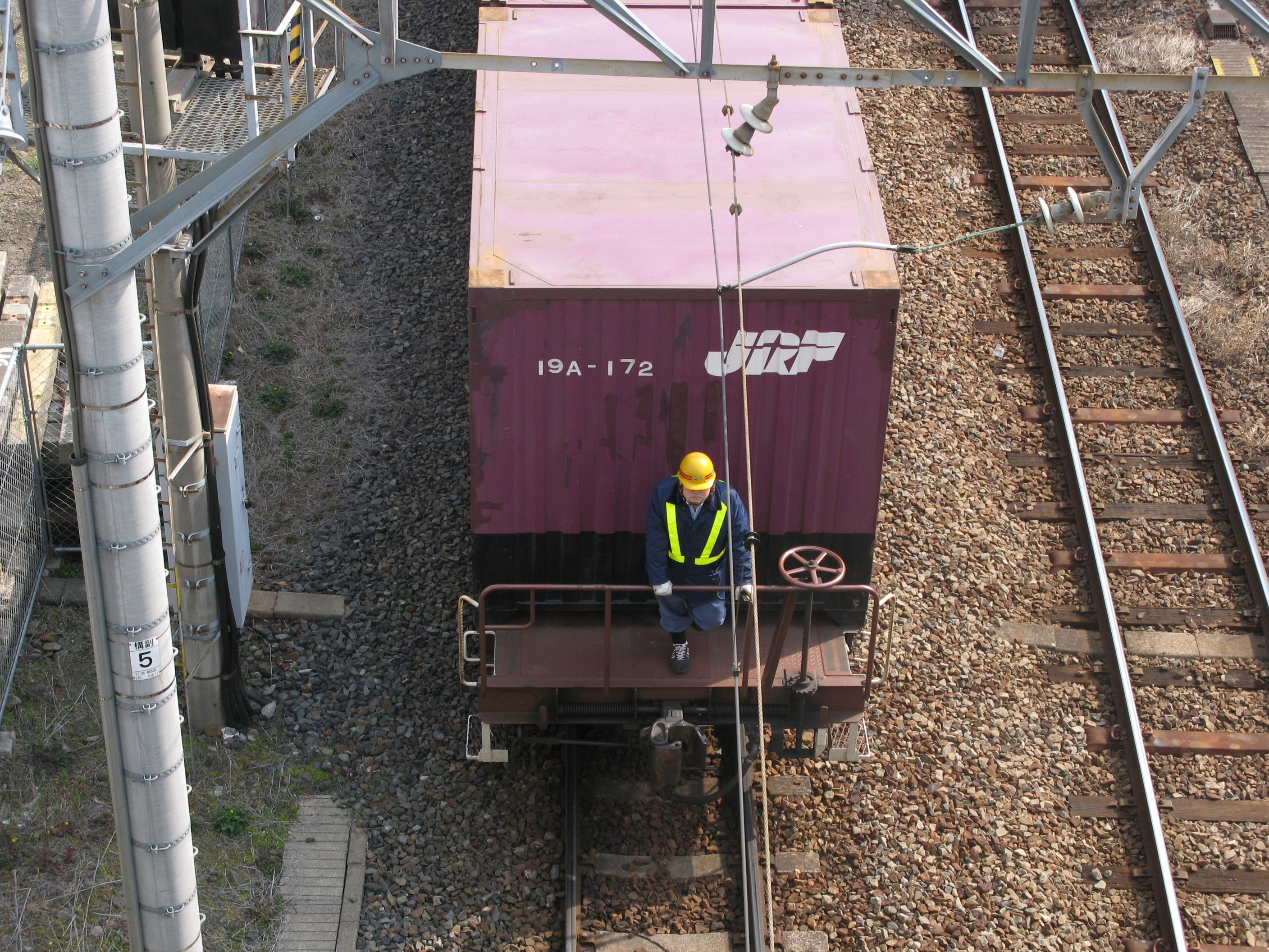 A brakeman (?) on a container car at Tabata-sō Station, Japan.